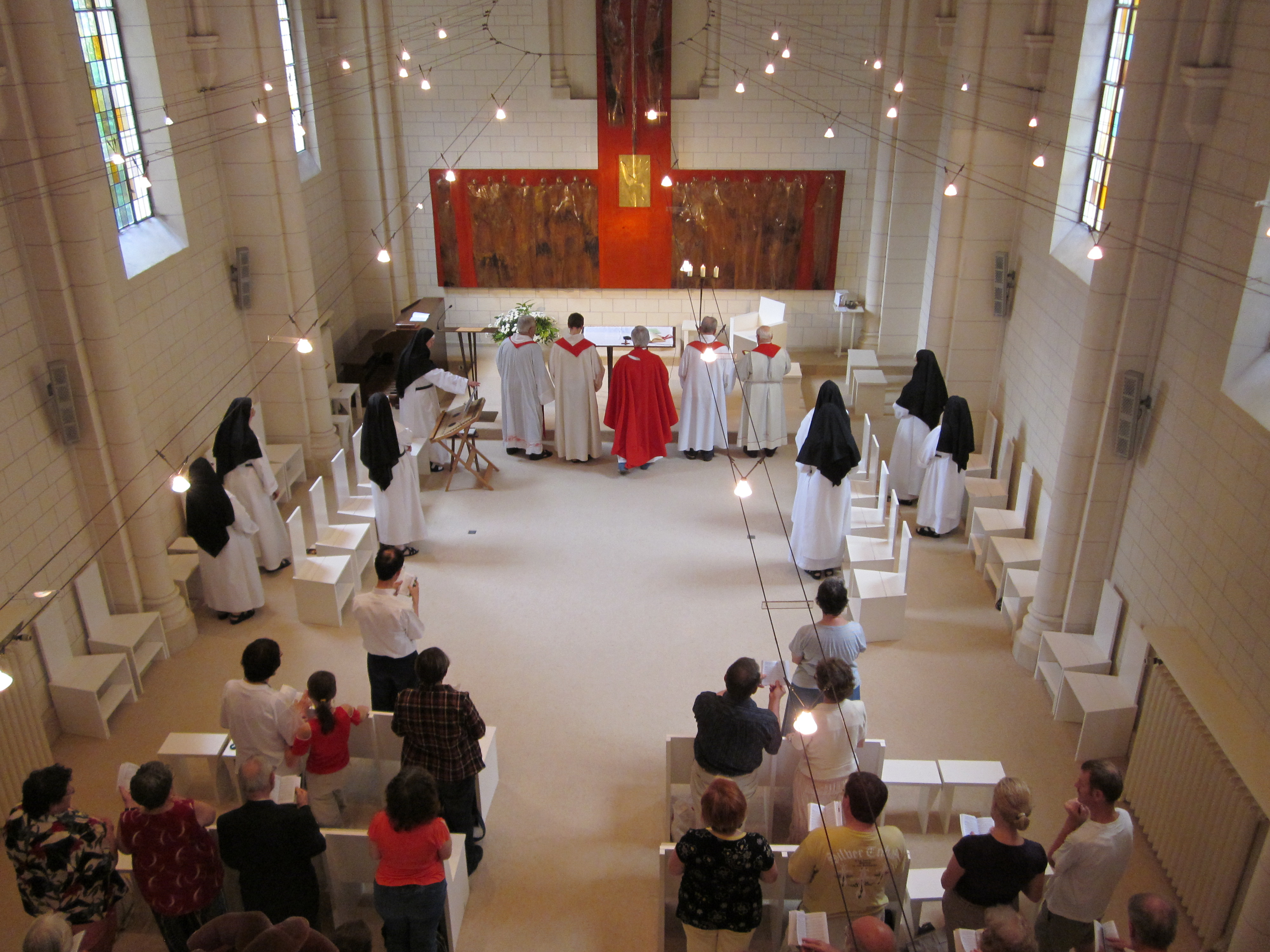 Esperanto Holy Mass during the congress of IKUE in the chapel of the priory of Benedictines of the Sacred Heart on Montmartre, Cité du Sacré Cœur, Paris, France.